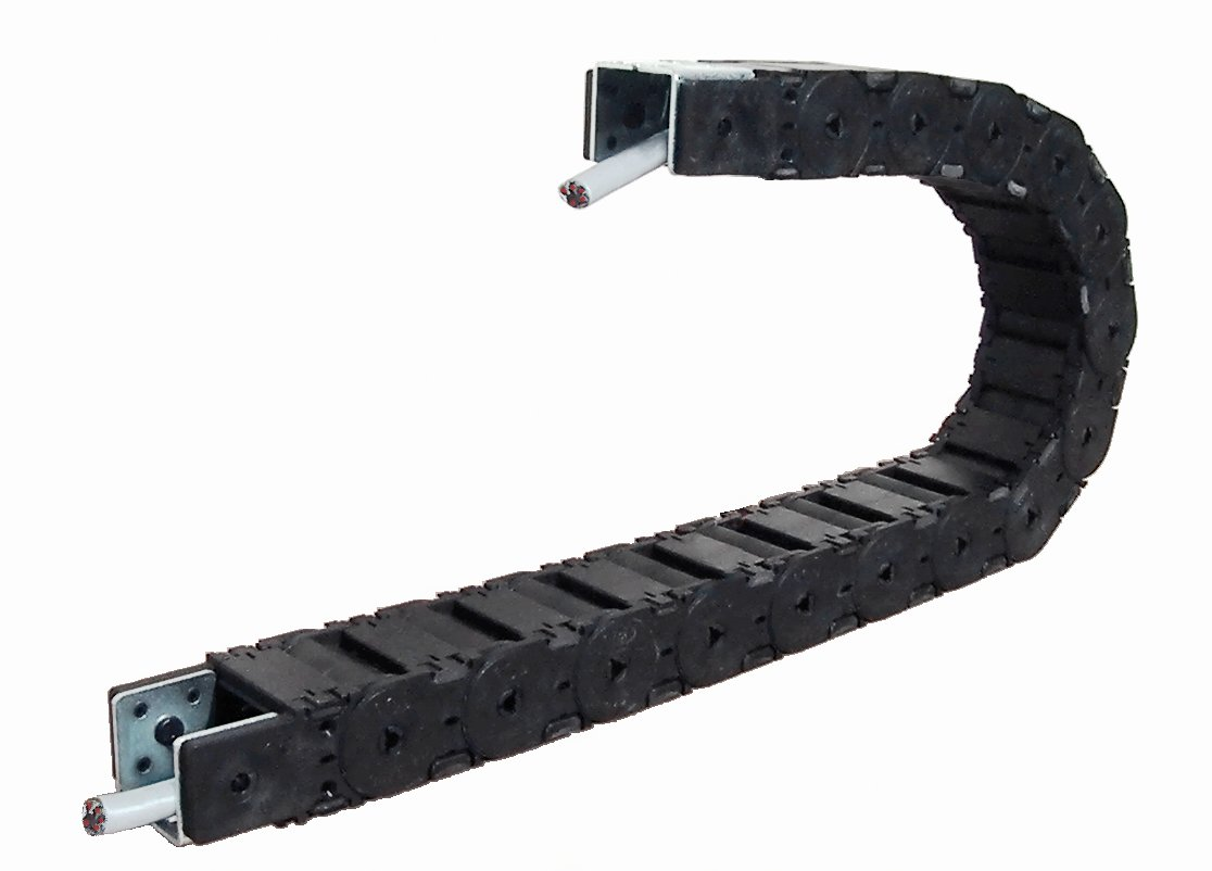 A cable drag chain of plastic, complete closed.